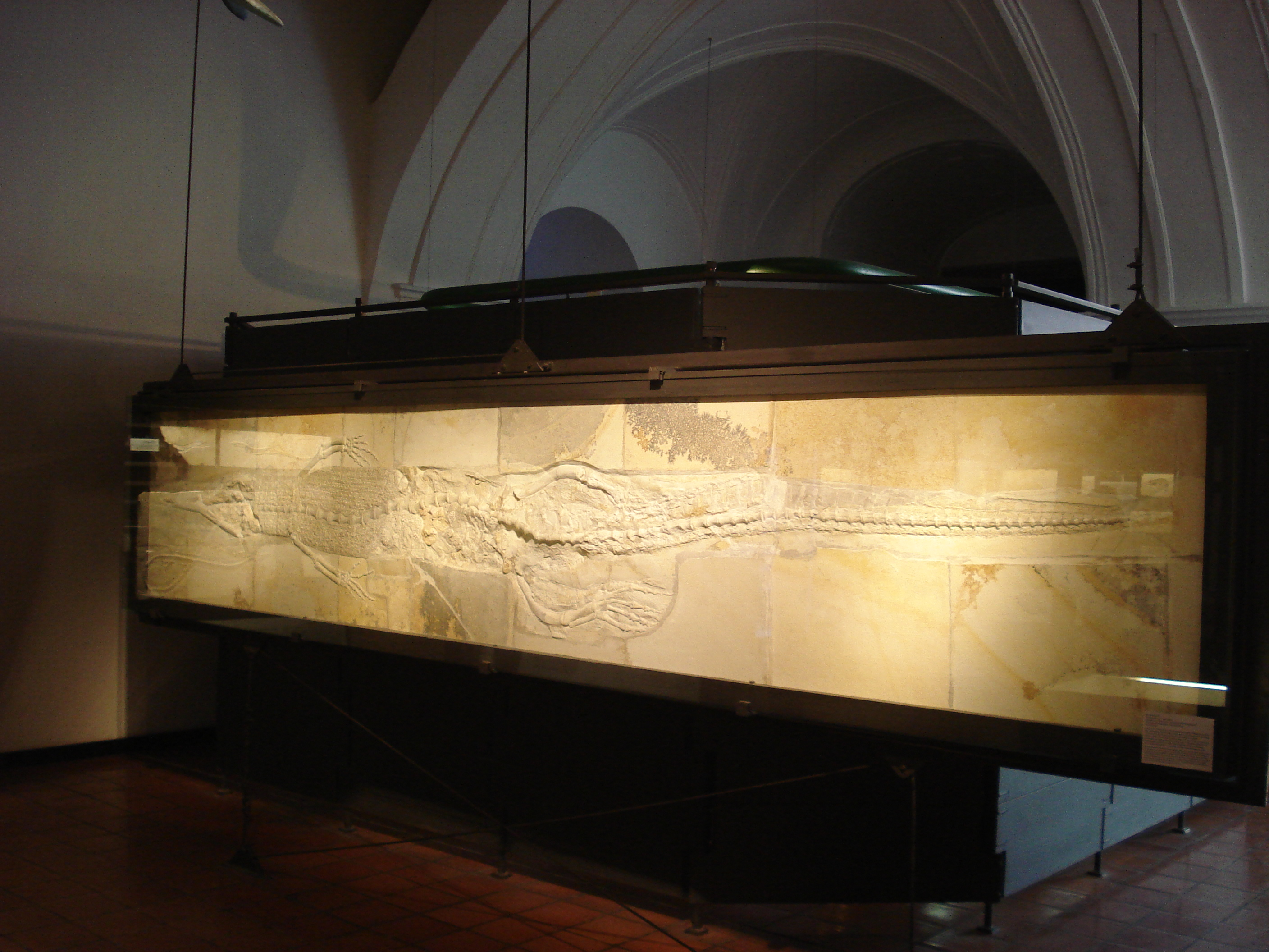 fossil of steneosaurus